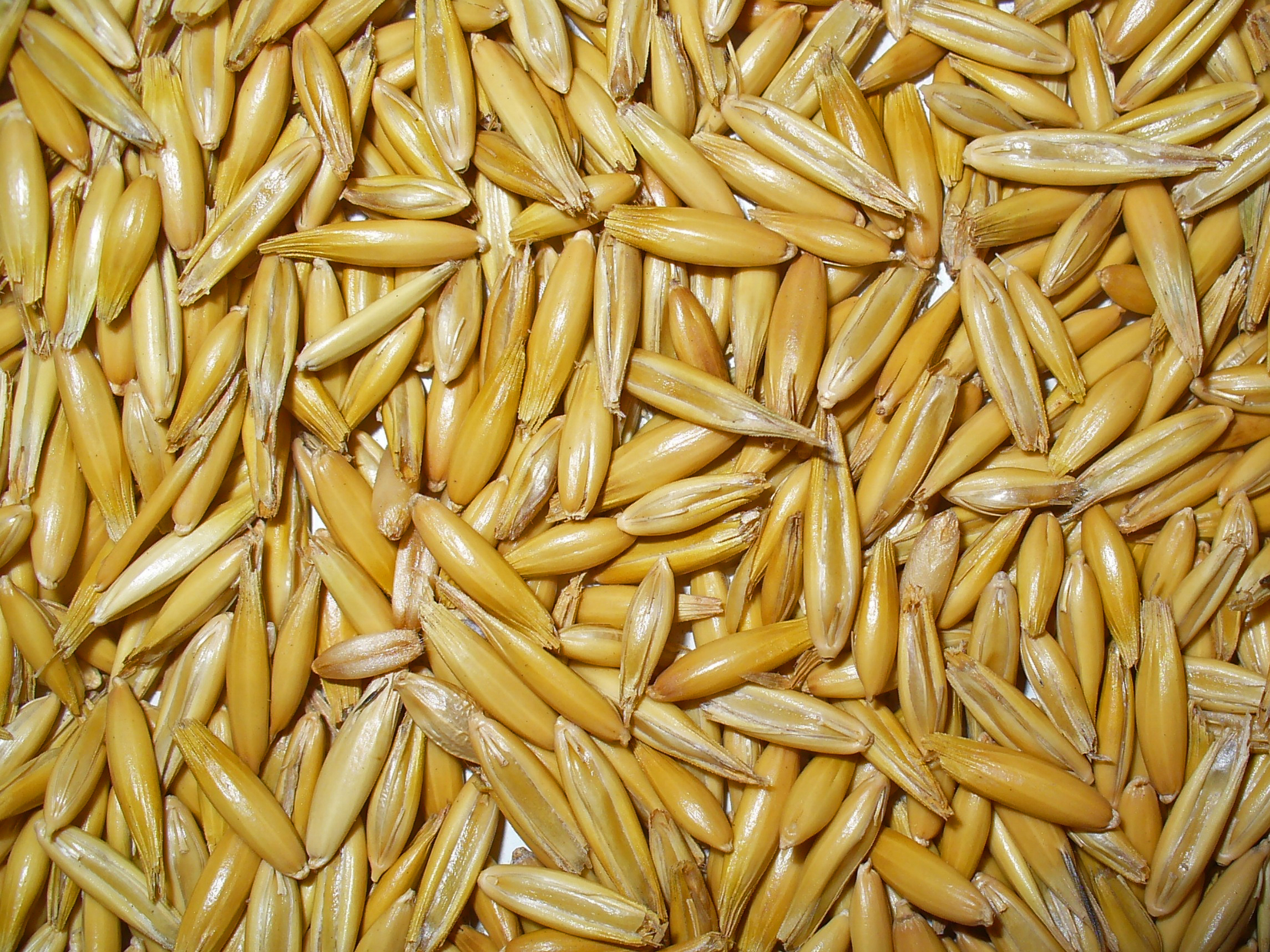 Avena sativa, Poaceae, Common Oat, fruits and seeds; Zell am Harmersbach, Germany.